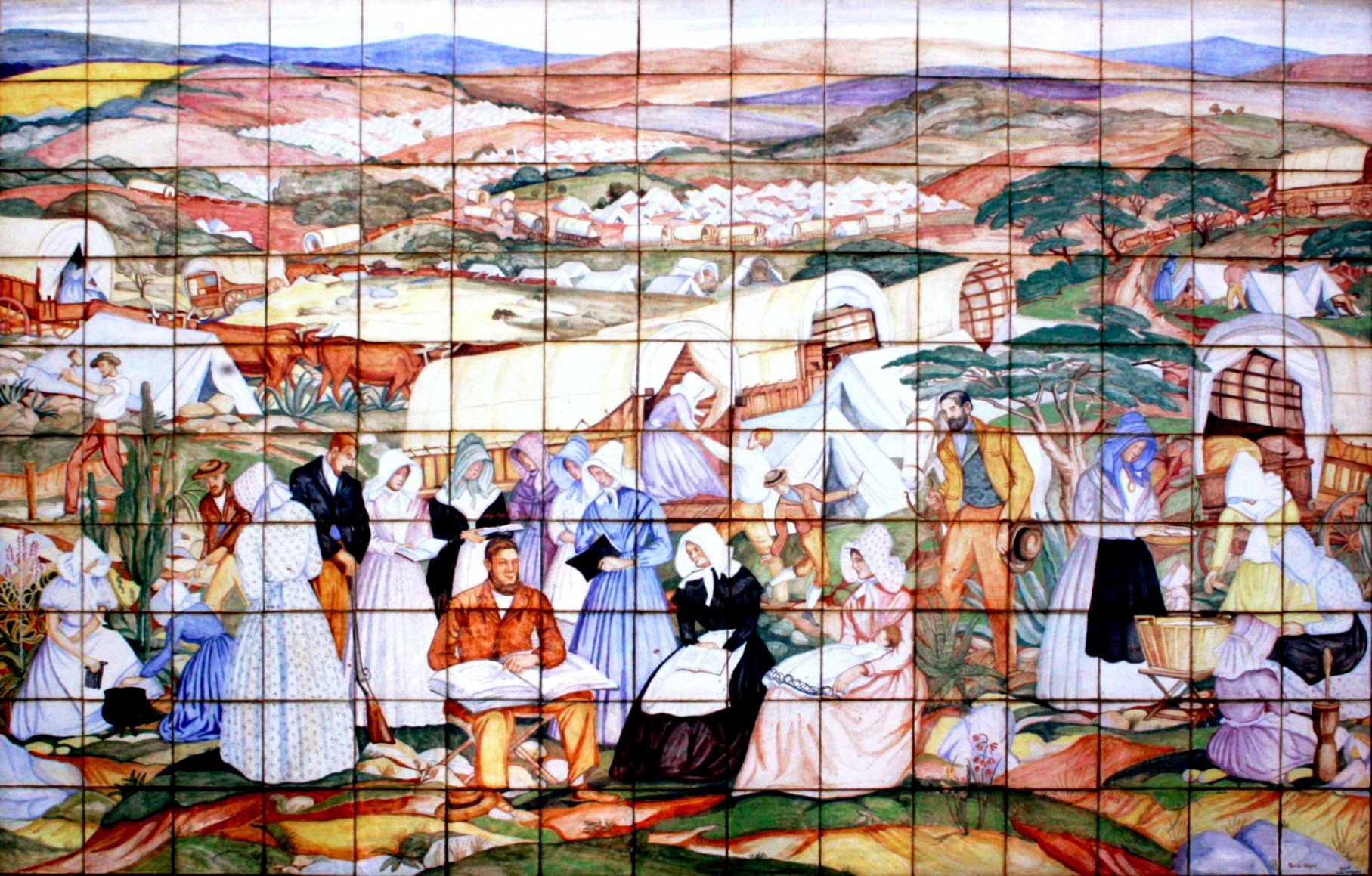 Tiled outdoor mural by Rosa Hope on wall of Irene Post Office near Pretoria